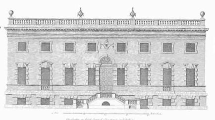 South facade, was designed by Colen Campbell and completed in 1720. The design is based on Palladio's Villa Emo.